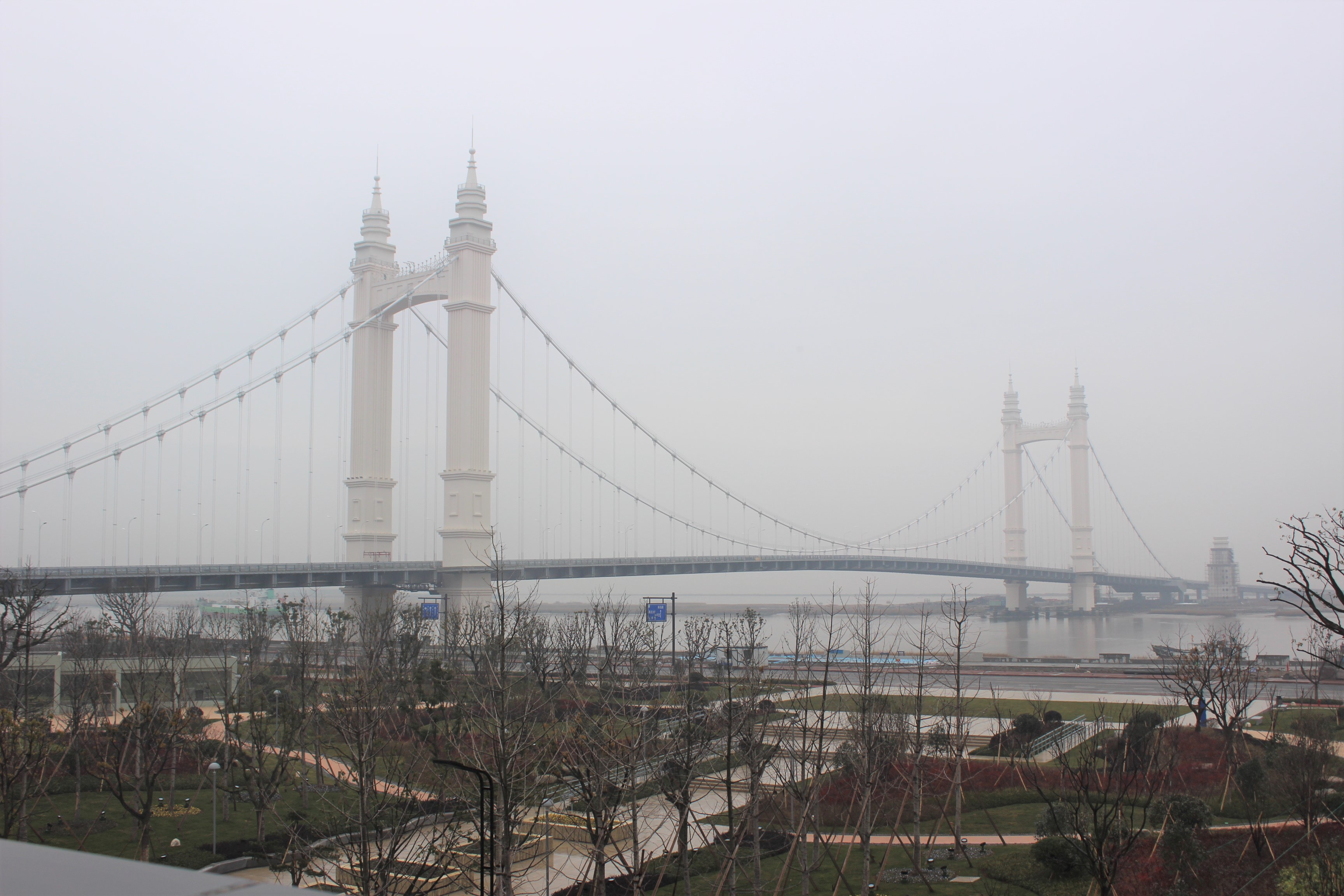 Photo taken from Zhoushan Marine Science City